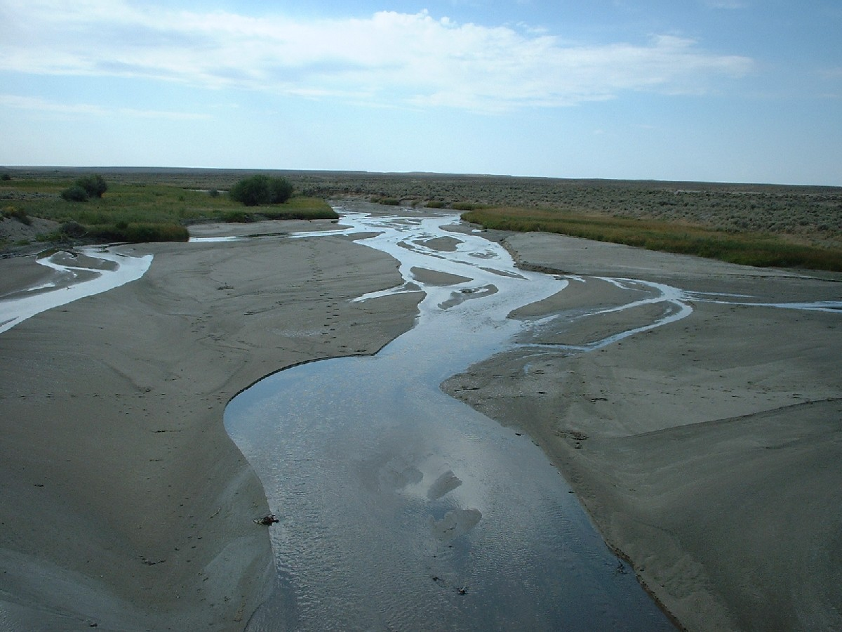 Streamflow during drought conditions, Big Sandy River near Farson, Wyoming (USGS 09213500), September 5, 2002.